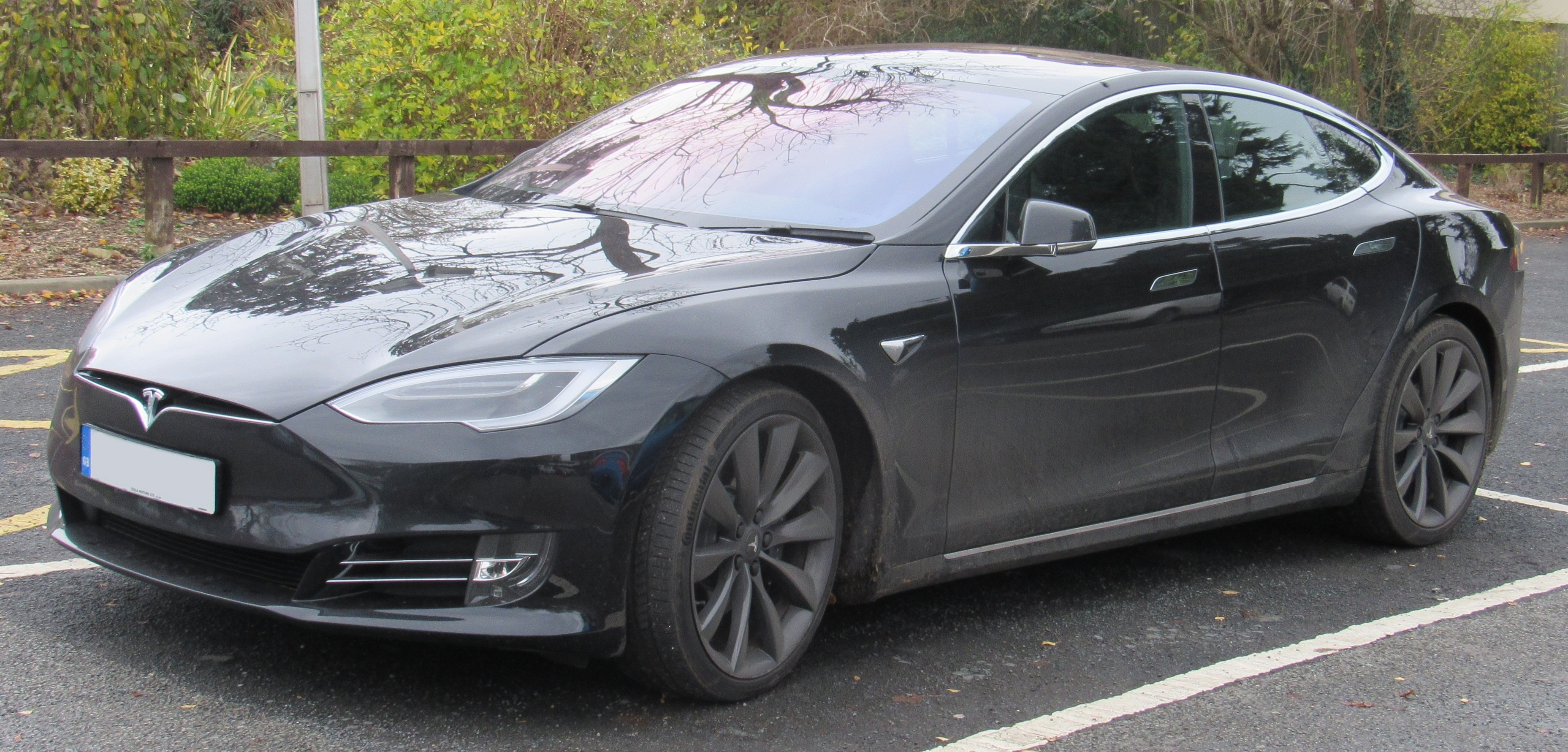 2017 Tesla Model S 75D Front Taken in Leamington Spa